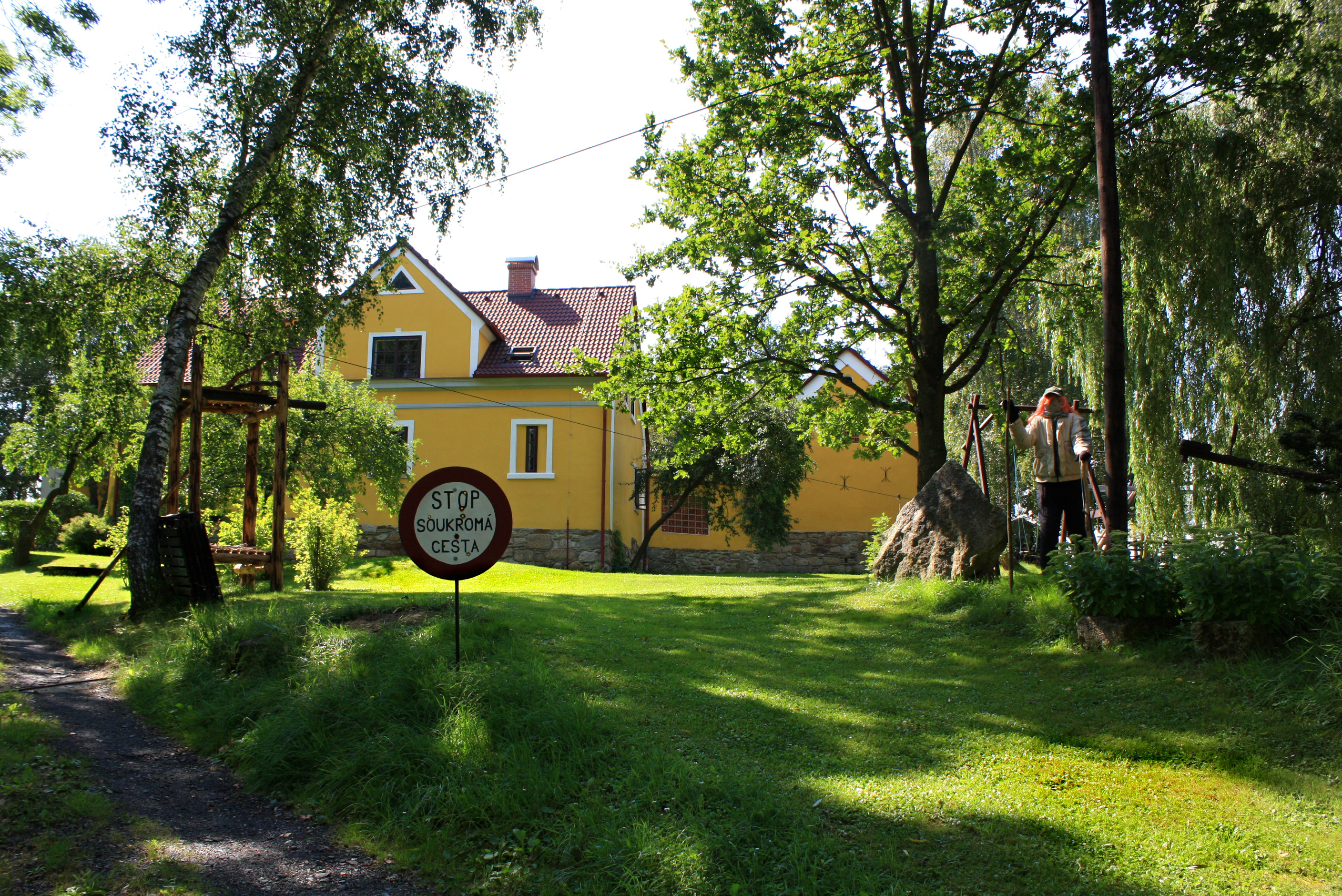 House No 12 in Velká Šitboř, part of Milíkov village, Czech Republic